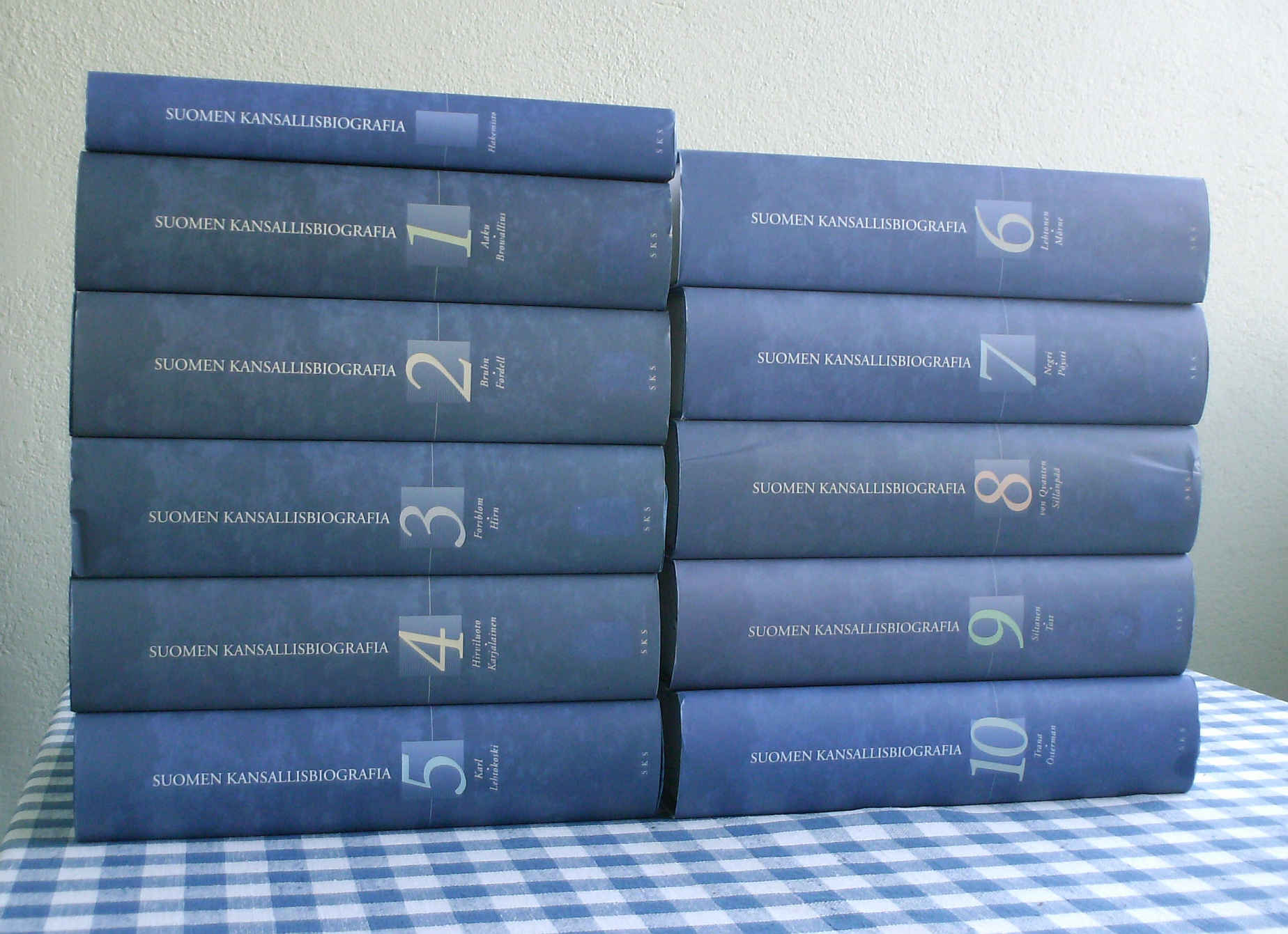 Photograph of a complete set of Suomen kansallisbiografia (The National Biography of Finland) at the home of a Wikipedia editor. Book design by Heikki Kalliomaa.